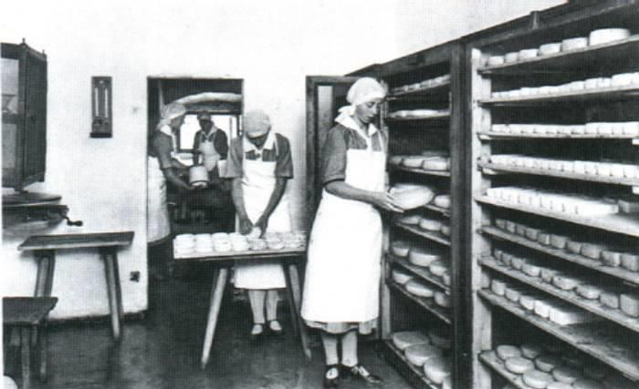 Reifensteiner Schule Wöltingerode